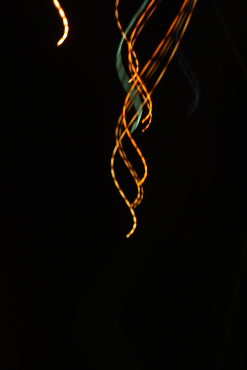 Long exposure, light creates different colours and patterns at different intensities.